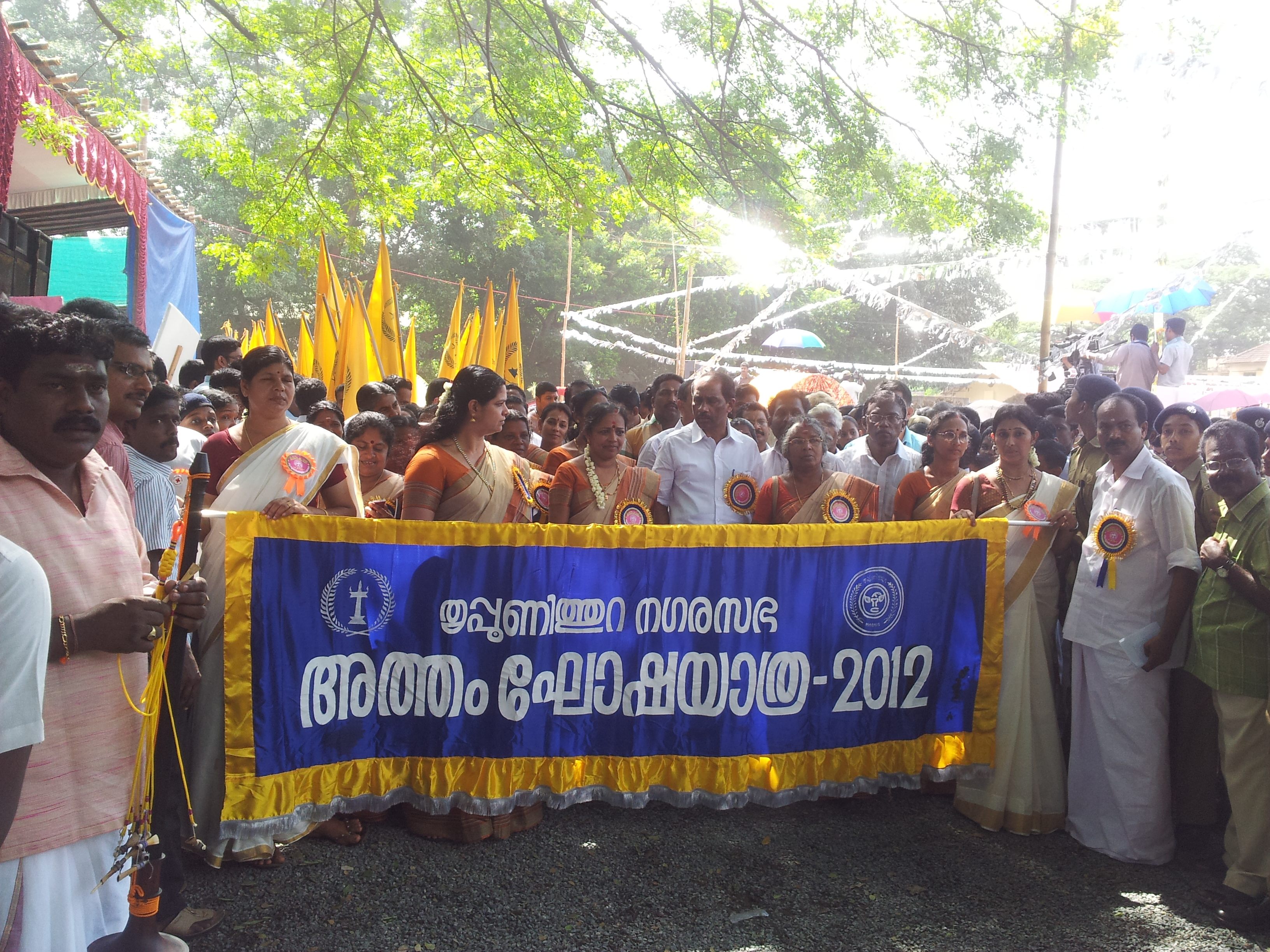 Thripunithura Onam Athachamayam 2012